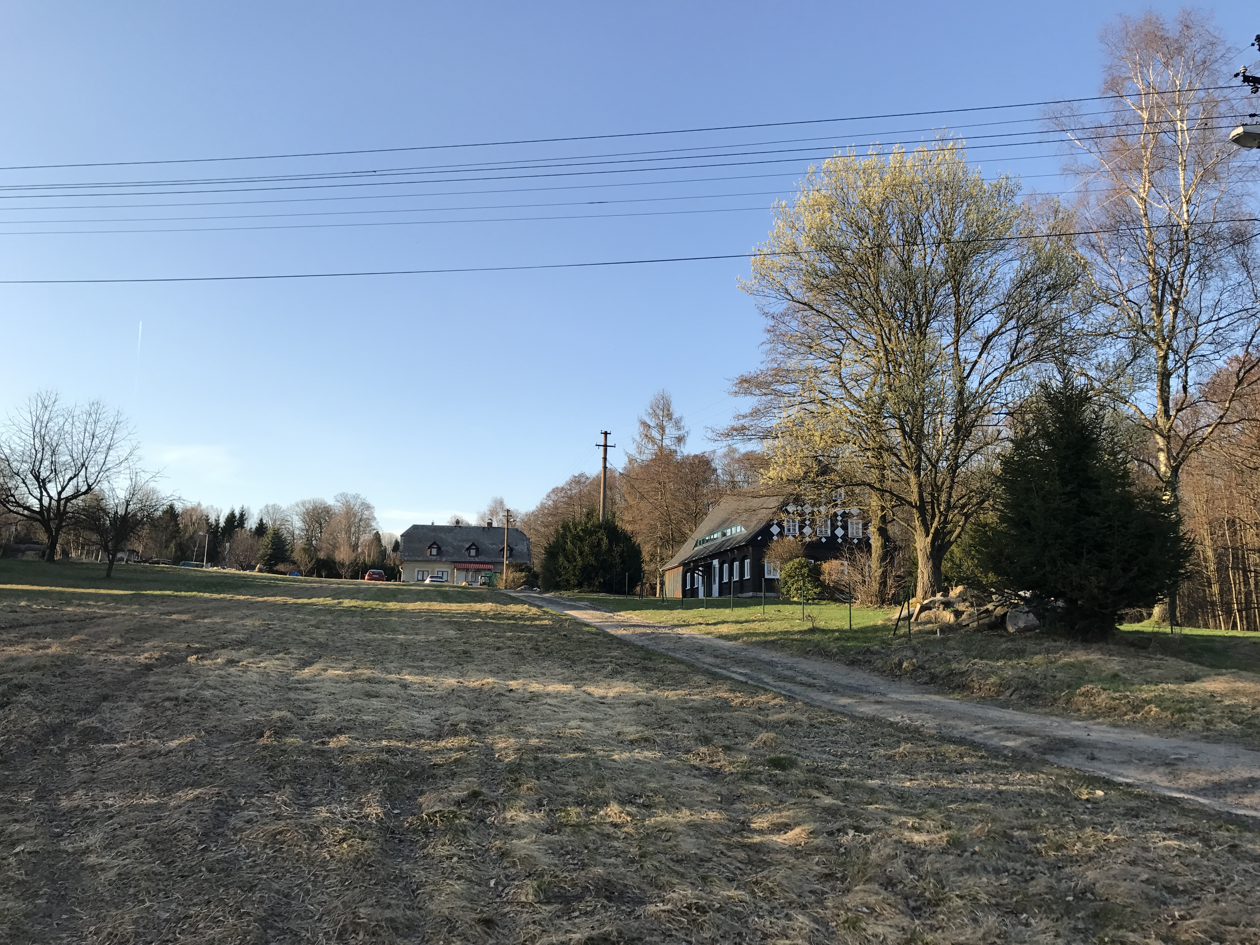 House in Nové Křečany, Staré Křečany, Děčín District.